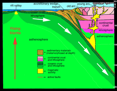 USGS Earthquake Hazards Program Visual Glossary - accretionary wedge